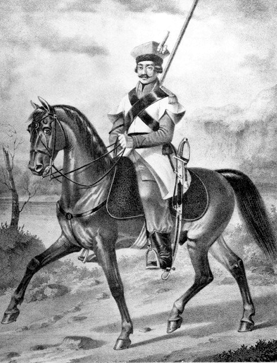 Private Katerinoslavskiy Pikemen Regiment 1776 - 1784